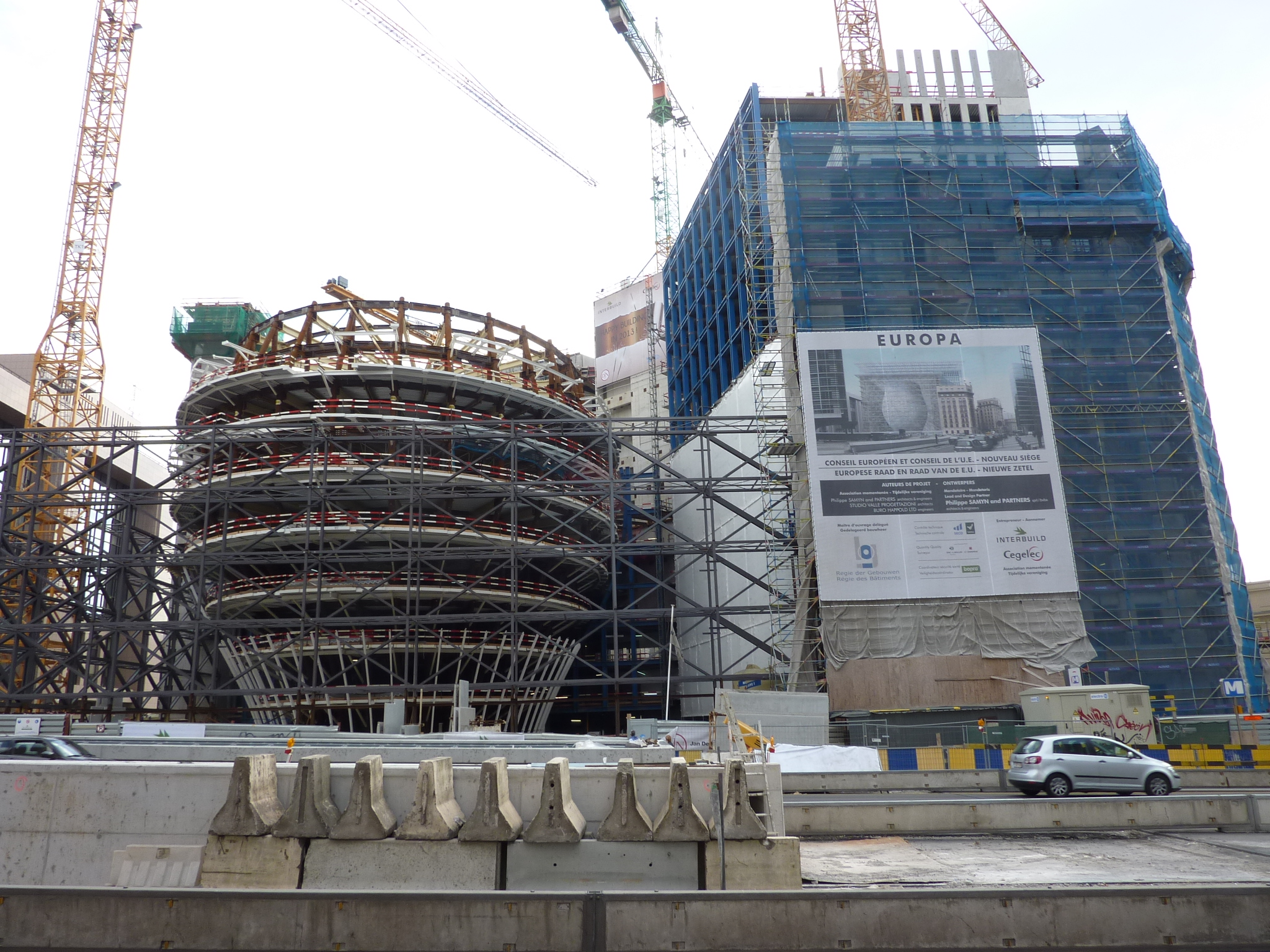 Construction of the Europa building's iconic "lantern-shaped" structure and renovation of the Art-Deco façade of the former Résidence Palace "bloc A" in May 2013.